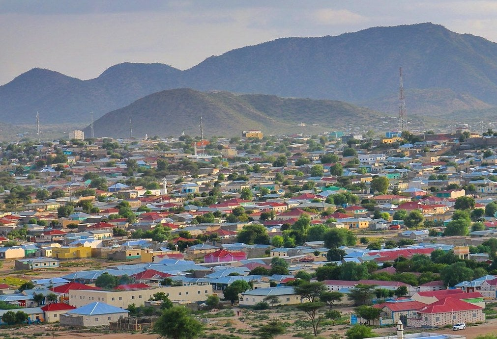 Borama, the capital city of Awdal.